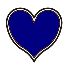 Corps badge for 3rd division, XXIV corps Union Army (American Civil War)